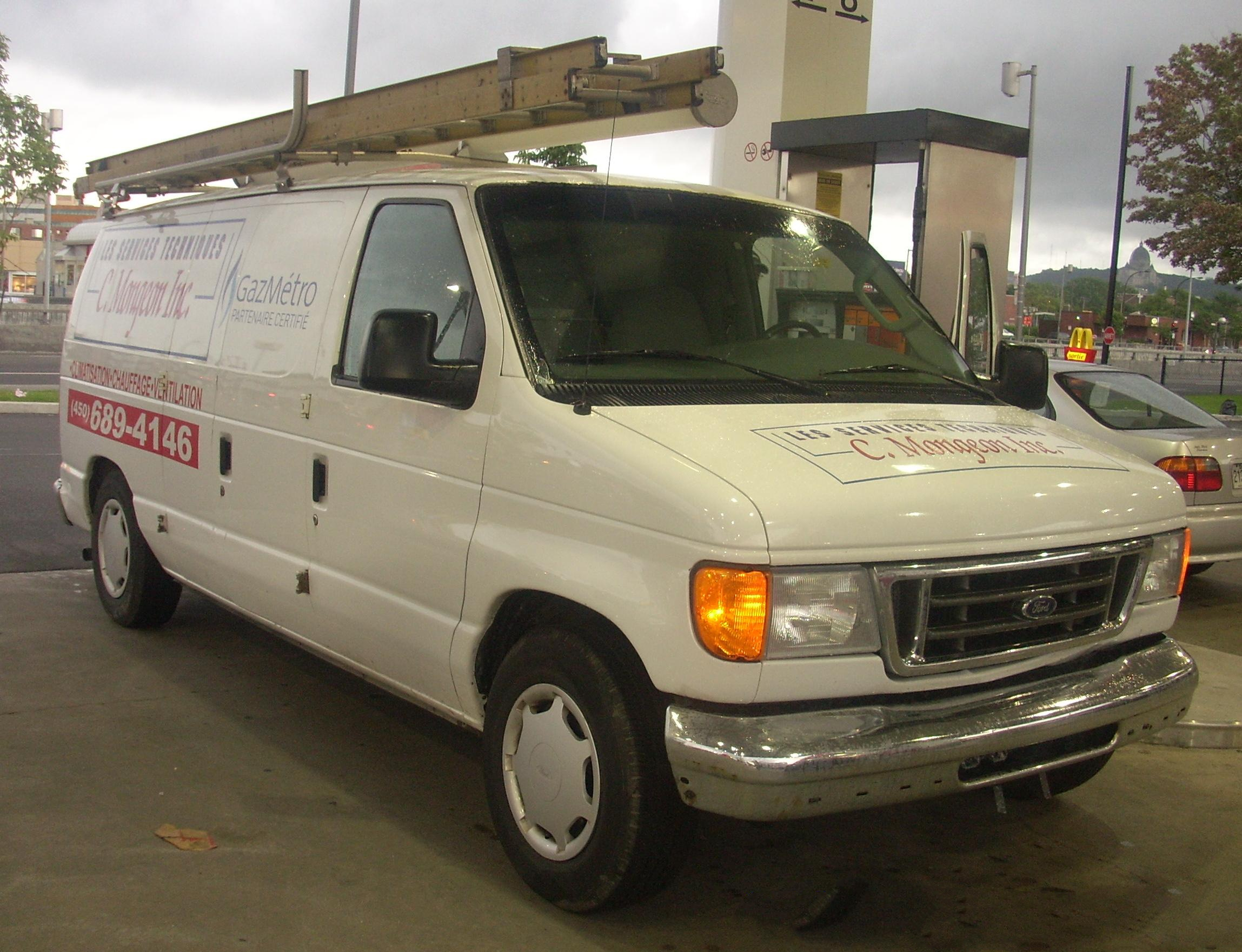 2003-2007 Ford E-Series photographed in Montreal, Quebec, Canada.